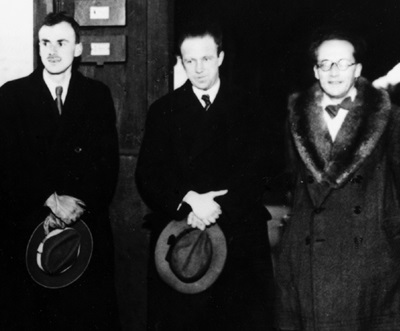 Dirac, Heisenberg, Schrodinger